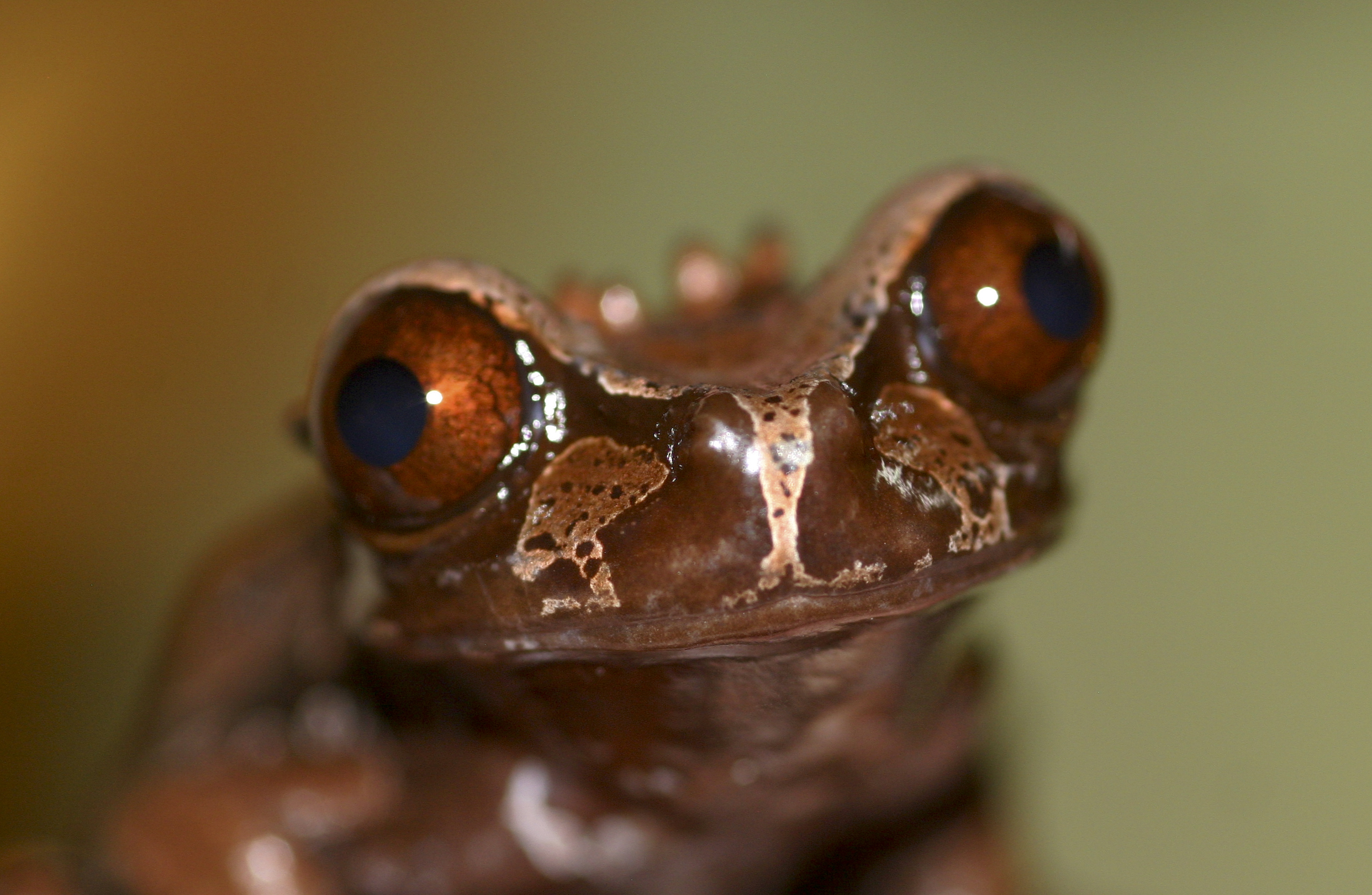 Anotheca spinosa